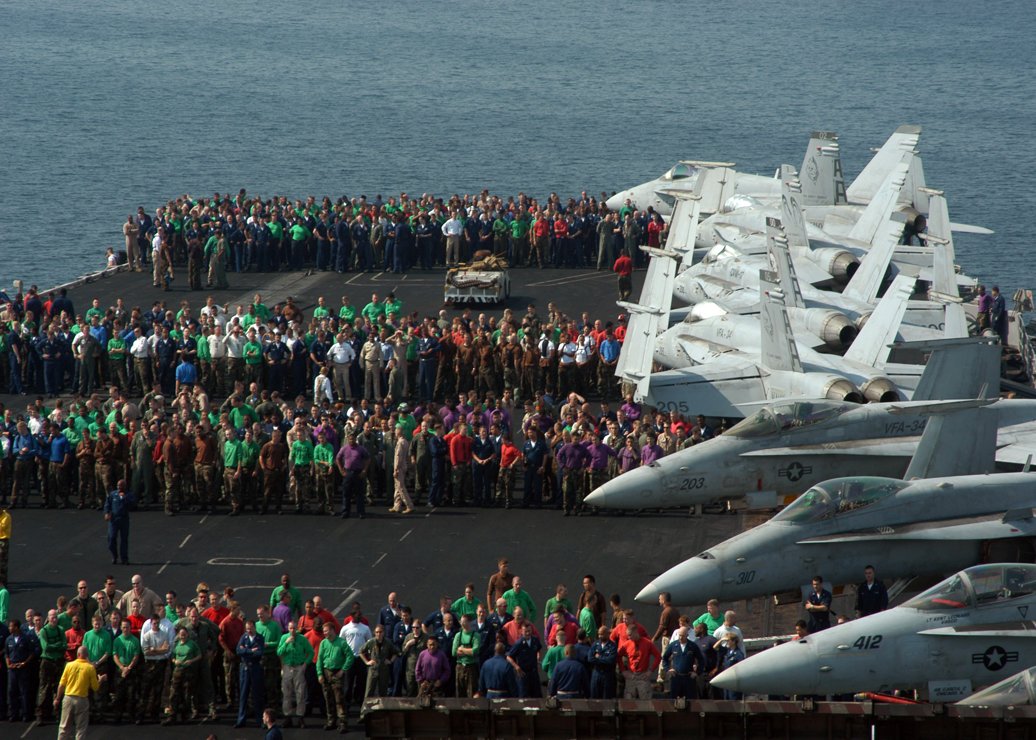 Persian Gulf (Sept. 21, 2004) - All hands participate in a Foreign Object Damage (FOD) walk down on the flight deck aboard the conventionally powered aircraft carrier US John F. Kennedy (CV 67). This task is performed each day and night before flight operations to ensure the flight deck is clear of all foreign objects, which could be ingested by jet aircraft, damaging expensive equipment or place flight deck personnel in danger. Kennedy and embarked Carrier Air Wing Seventeen (CVW-17) are currently on deployment in the 5th Fleet area of responsibility in support of Operation Iraqi Freedom (OIF). Units in the Kennedy Carrier Strike Group are working closely with Multi-National Corps-Iraq and Iraqi forces to bring stability to the sovereign government of Iraq. U.S. Navy photo by Photographer's Mate 3rd Class Joshua Karsten (RELEASED)